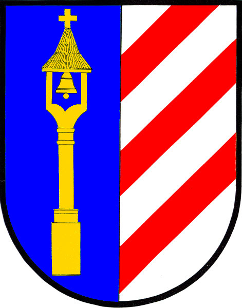 Municipal coat of arms of Radíkovice village, Hradec Králové District, Czech Republic.